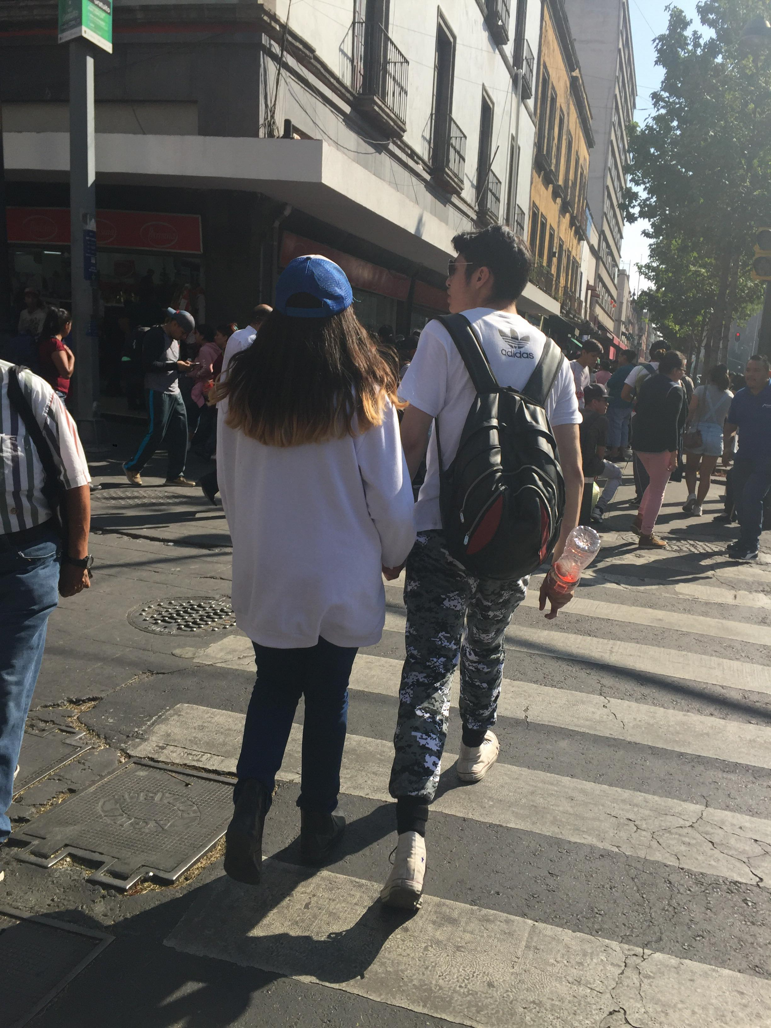 People crossing a zebra crossing in the center of Mexico City.